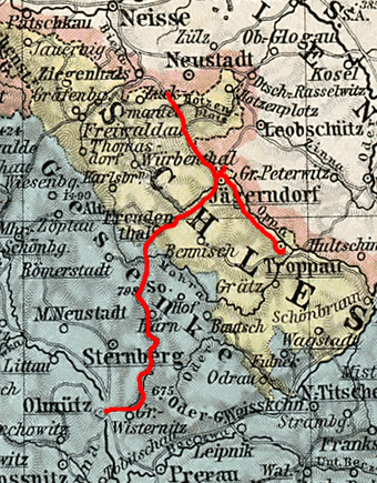 MSCB - network